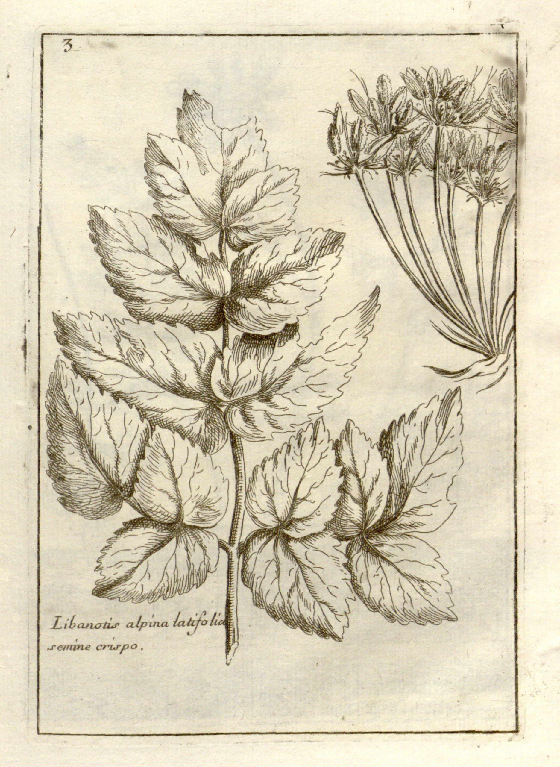 Paolo Boccone (1697), Museo di Piante Rare della Sicilia, Malta, Corsica, Italia, Piemonte, e Germania, etc. plate 3, Libanotis alpina